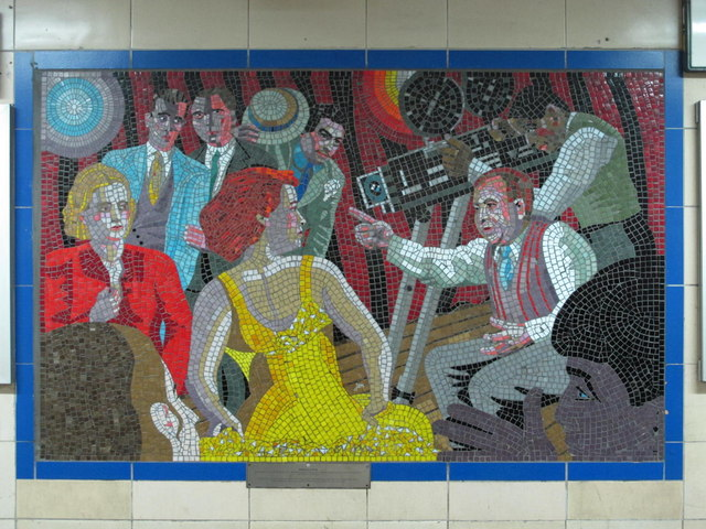 Leytonstone tube station - Hitchcock Gallery: Hitchcock The Director